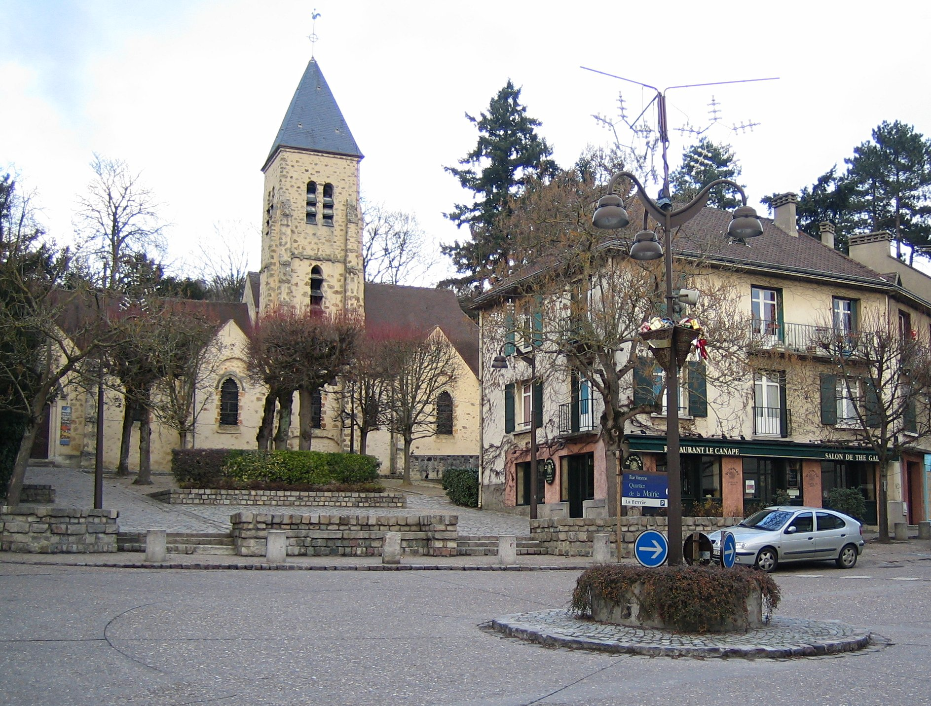 Saint-Rémi church in Gif-sur-Yvette (small town near Paris).